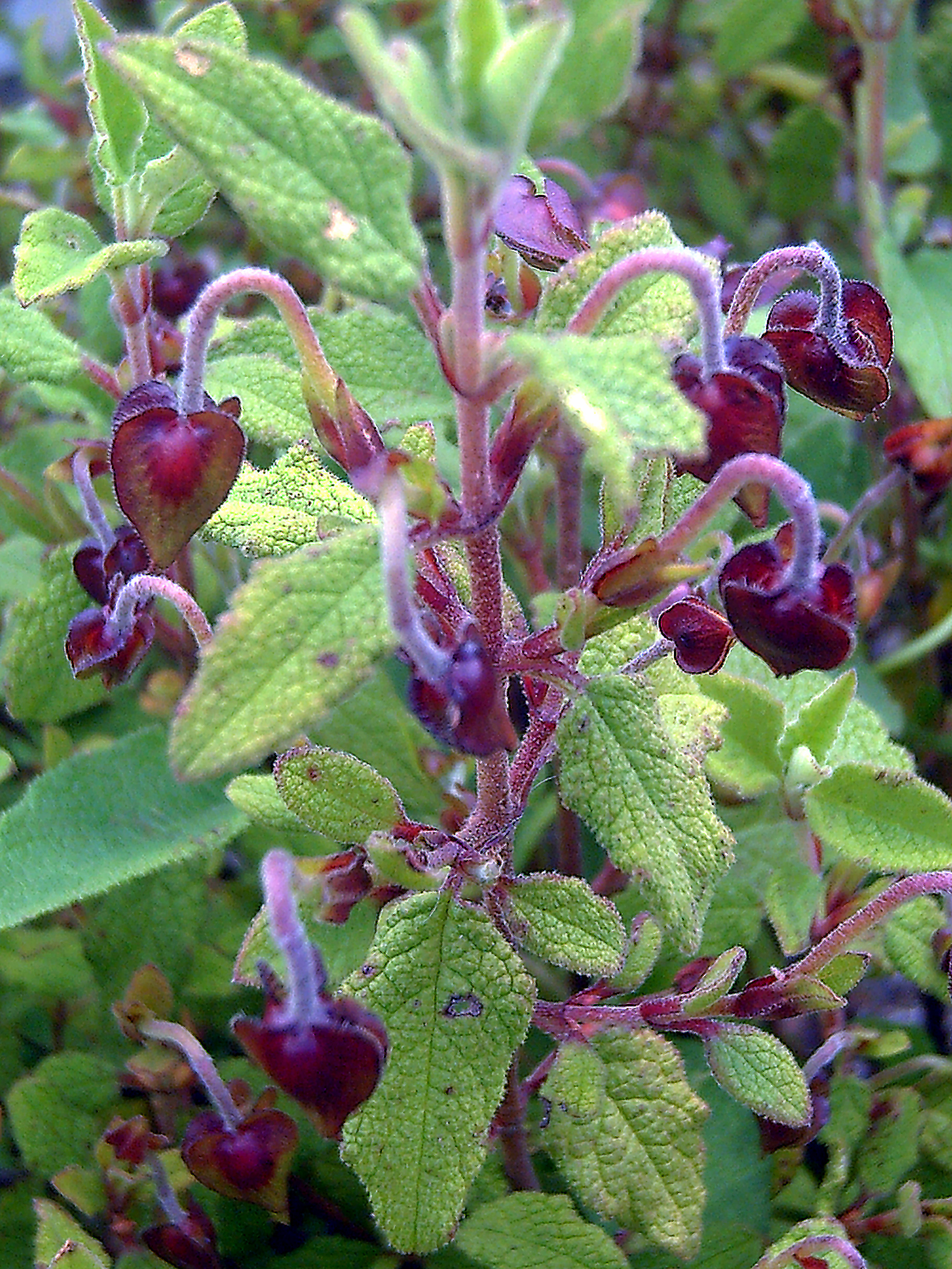 Cistus salviifolius blossom, Sierra Madrona, Spain